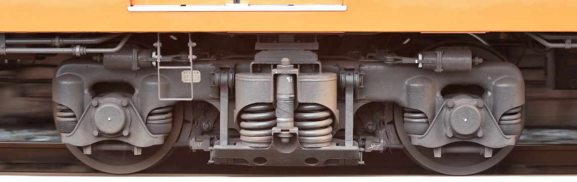 Type DT33 Bogie truck of JR West's JNR 103 series EMU (KM6F, Moha 102-581).